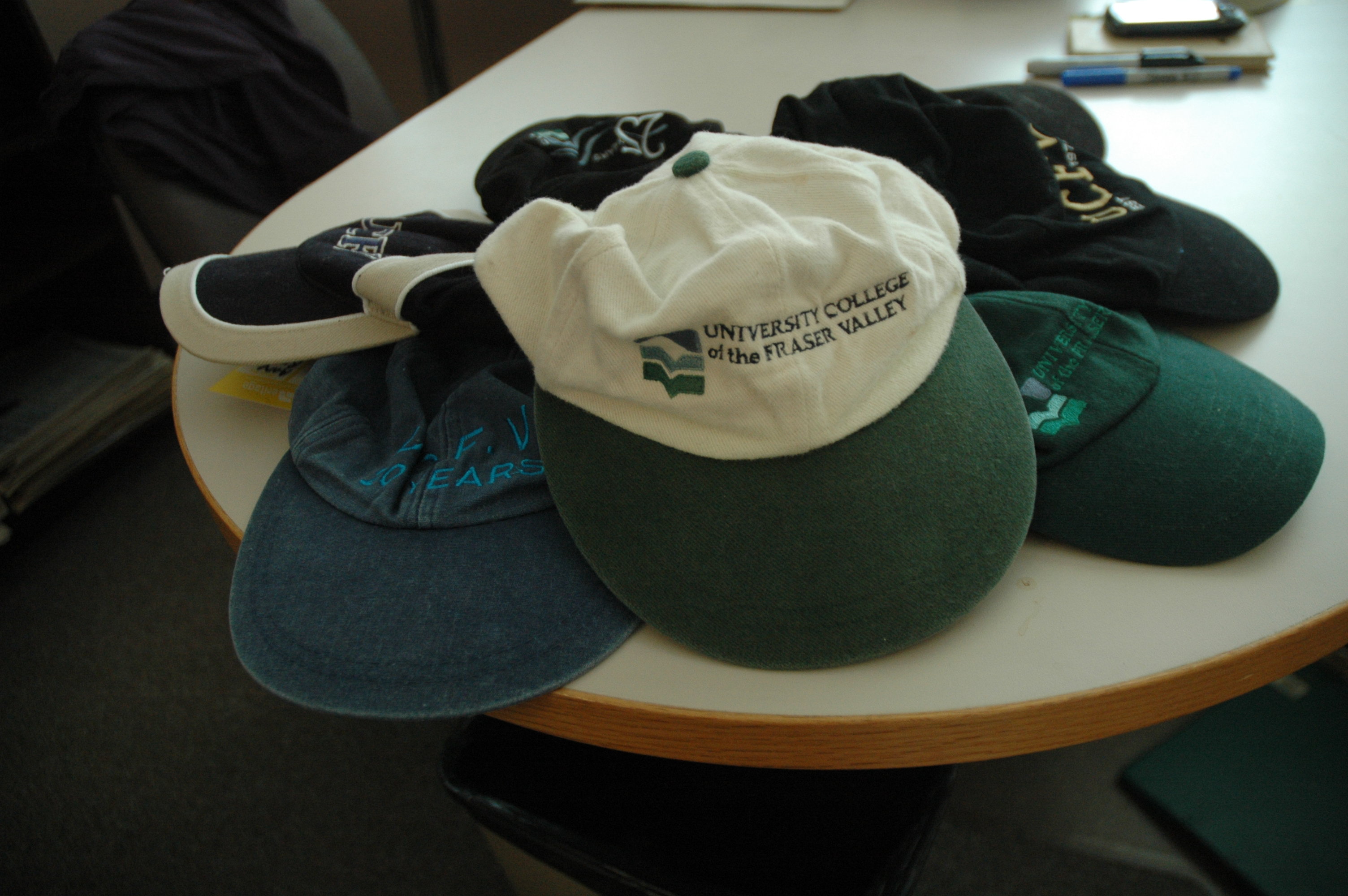 40 years of FVC/UCFV/UFV Miscellaneous paraphernalia found while packing up old Chwk campus